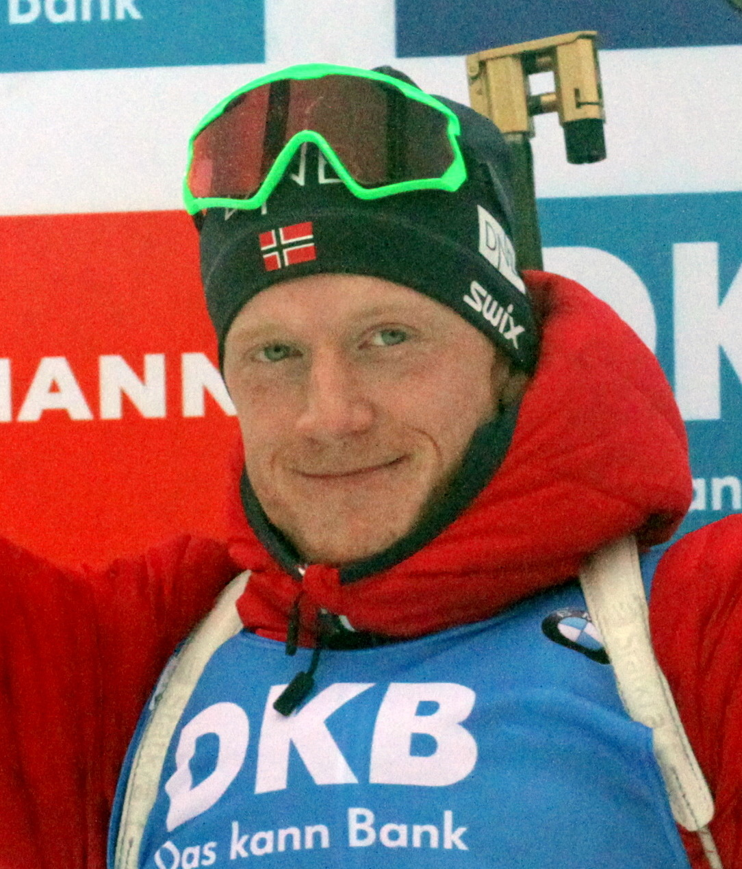 2018 Oberhof Biathlon World Cup - Pursuit Men